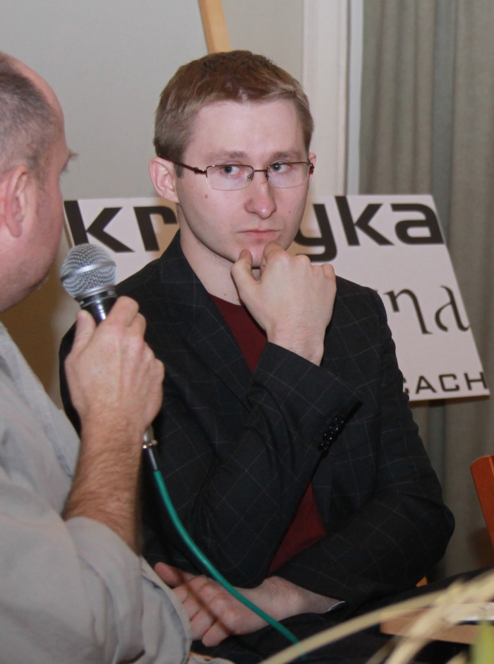 Sławomir Sierakowski, a left wing sociologist from Poland.